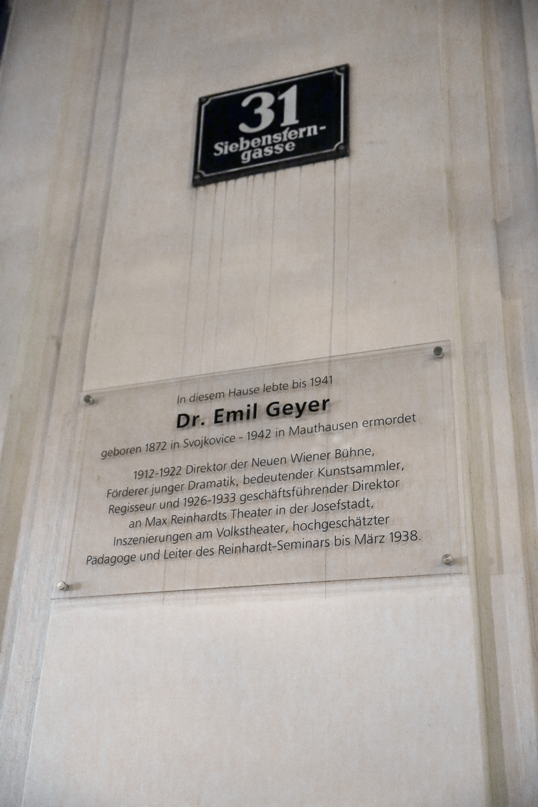 Memorial plate for Emil Geyer in Neubau, Vienna, Austria.